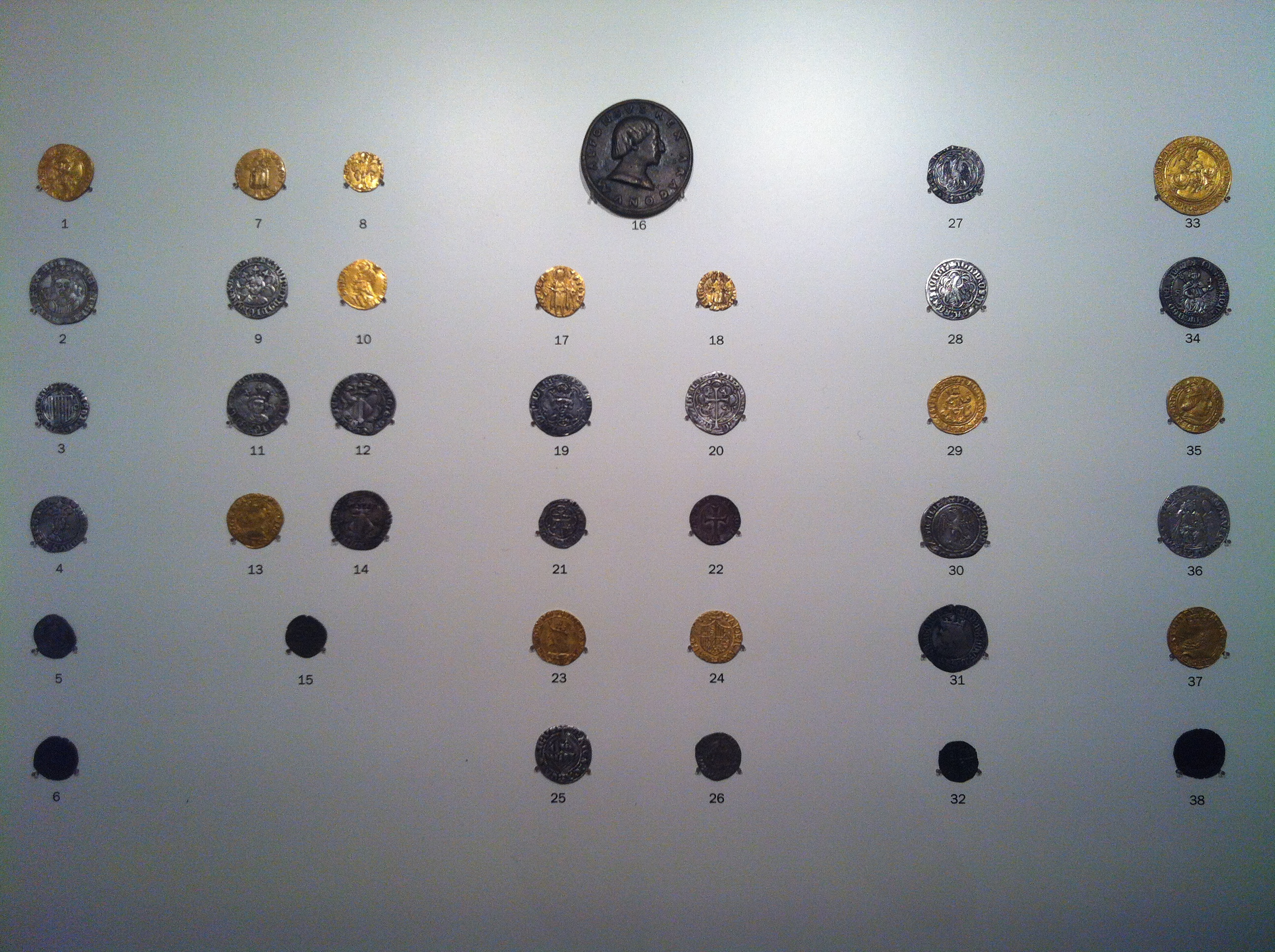 Numismatic collection conserved at MNAC in Barcelona.The collection of the Numismatic Cabinet of Catalonia, open to consultation by researchers, is formed by over 135,000 pieces. The principal numismatic series are represented here, with coins dating from the 6th century BC to the present day, as well as medals, valuable paper, tokens, monetary weights, scales, dies, decorations and insignia. Of all this wealth of material, the most important and emblematic series are without doubt the Catalan ones. They include extremely rare pieces, such as the first silver coins ever struck in the Iberian Peninsula by the Greeks of Emporion, the issues of the Catalan counties, those of the 17th-century Reapers’ War, those of the Napoleonic invasion and the bank notes issued by local councils in Catalonia during the Civil War of 1936-1939